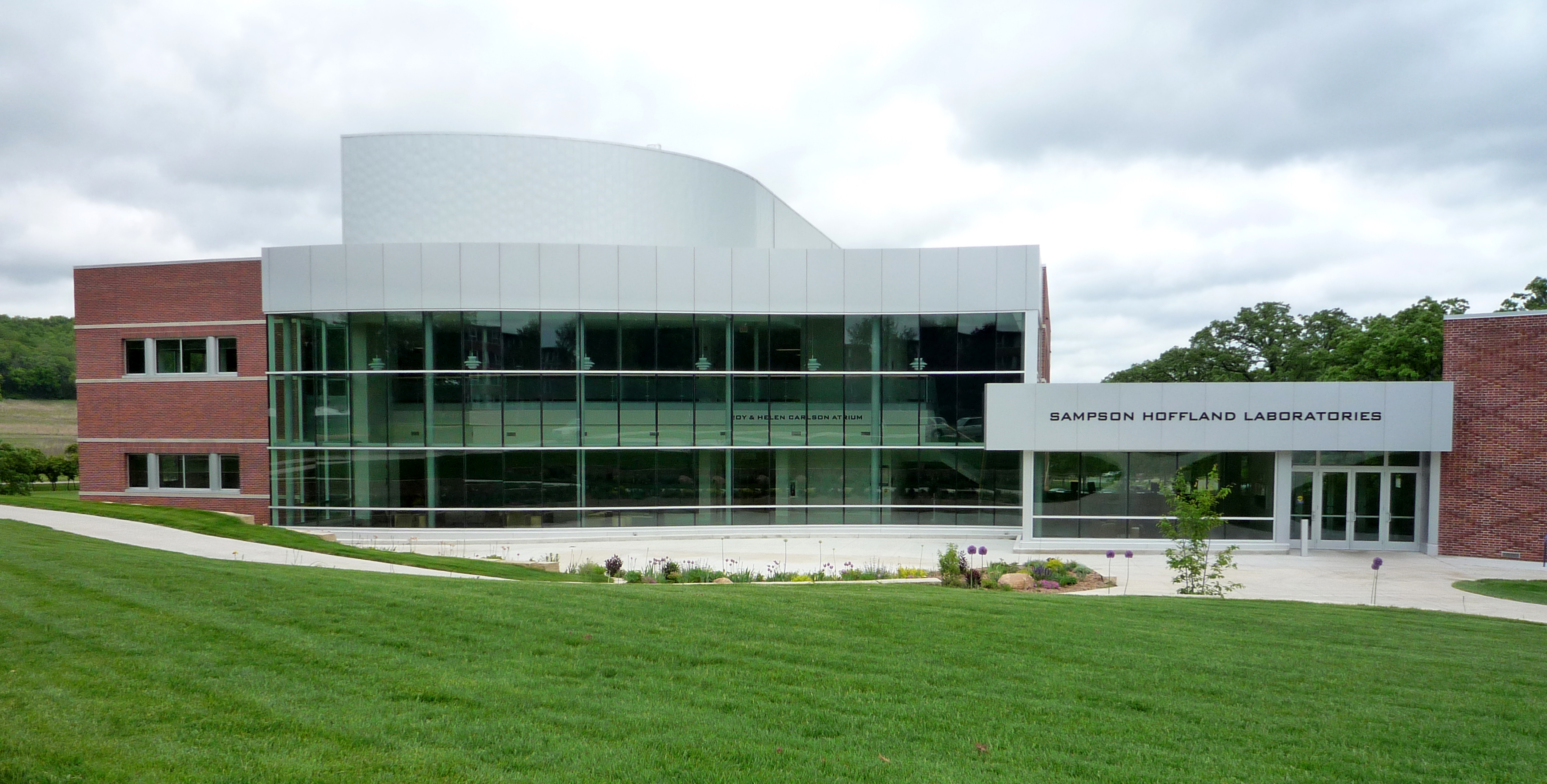 Sampson Hoffland Laboratories, Luther College, Decorah, Iowa, USA. The 64,000-square-foot building opened in Fall 2008 and is adjacent to the east wing of Valders Hall of Science.